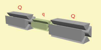 Mass spectrometry, triple quadripole